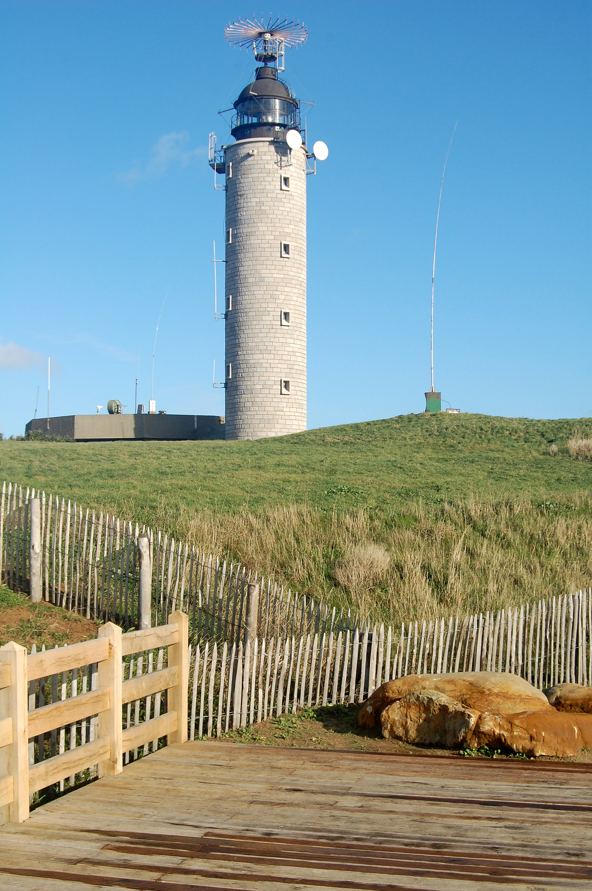 Cap Griz-Nez Lighthouse, Pas de Calais, France .